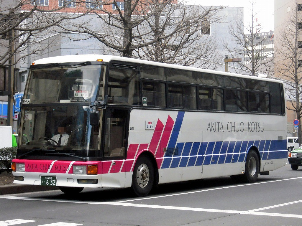 Akita Chuo Kotsu Mitsubishi Fuso Aero Queen KHighwaybus"Senshu"(Sendai-Akita)